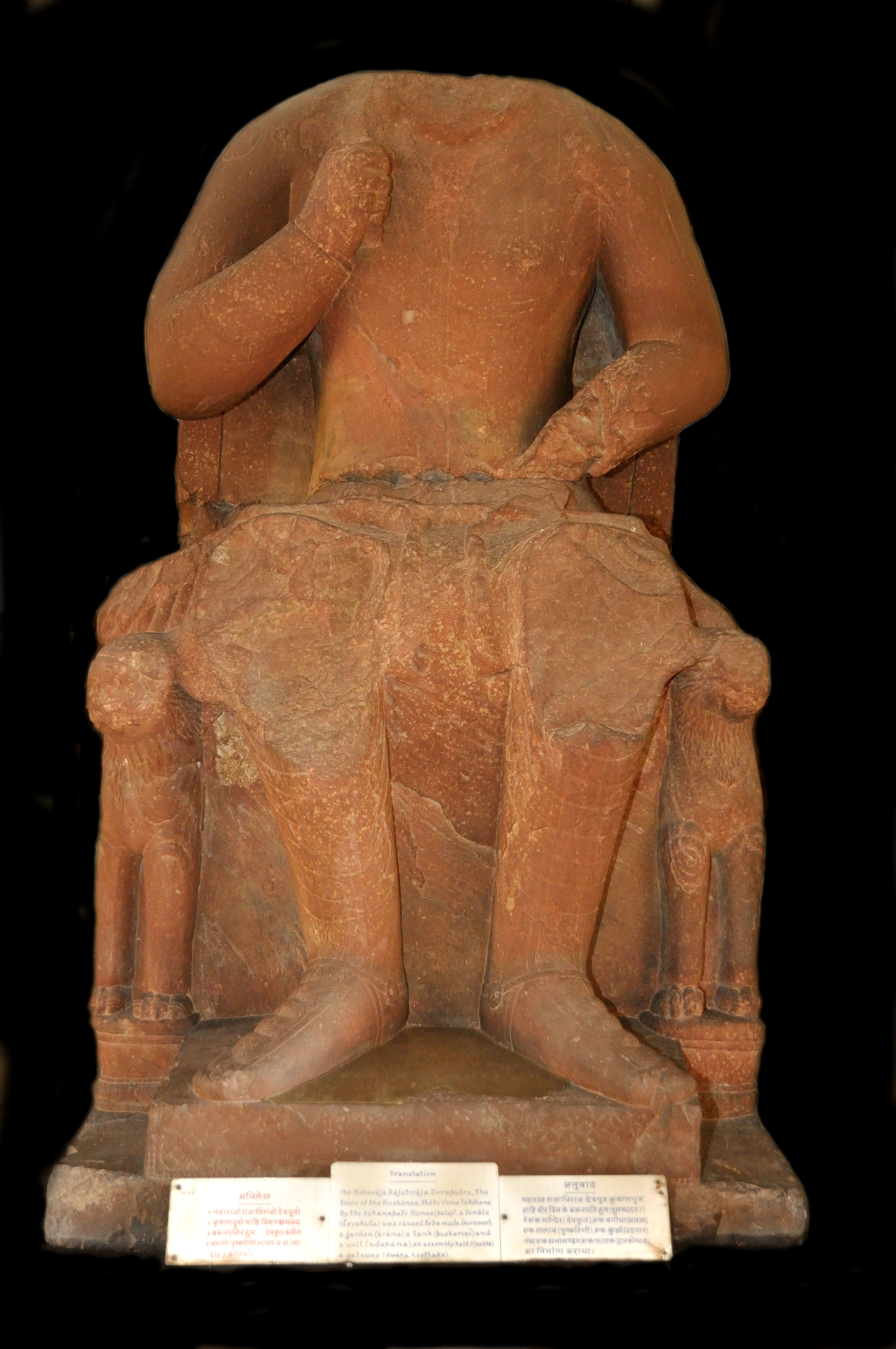 Vima Kadphises statue Mathura